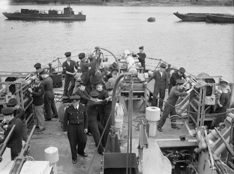 The Battle of the Atlantic 1939-1945 Anti-Submarine Weapons: The quarter deck of HMS HIND showing Foxer decoy float resting on the top of the depth charge racks. The Foxer was used to counter the German acoustic torpedo (GNAT).